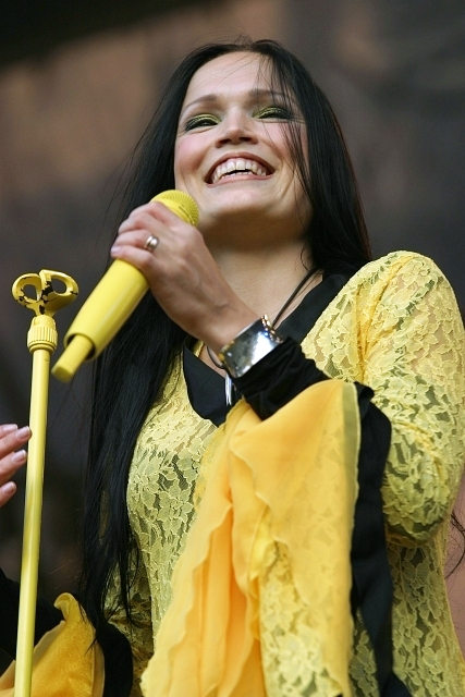 Tarja Turunen, Pukkelpop 2005, Hasselt, Belgium.